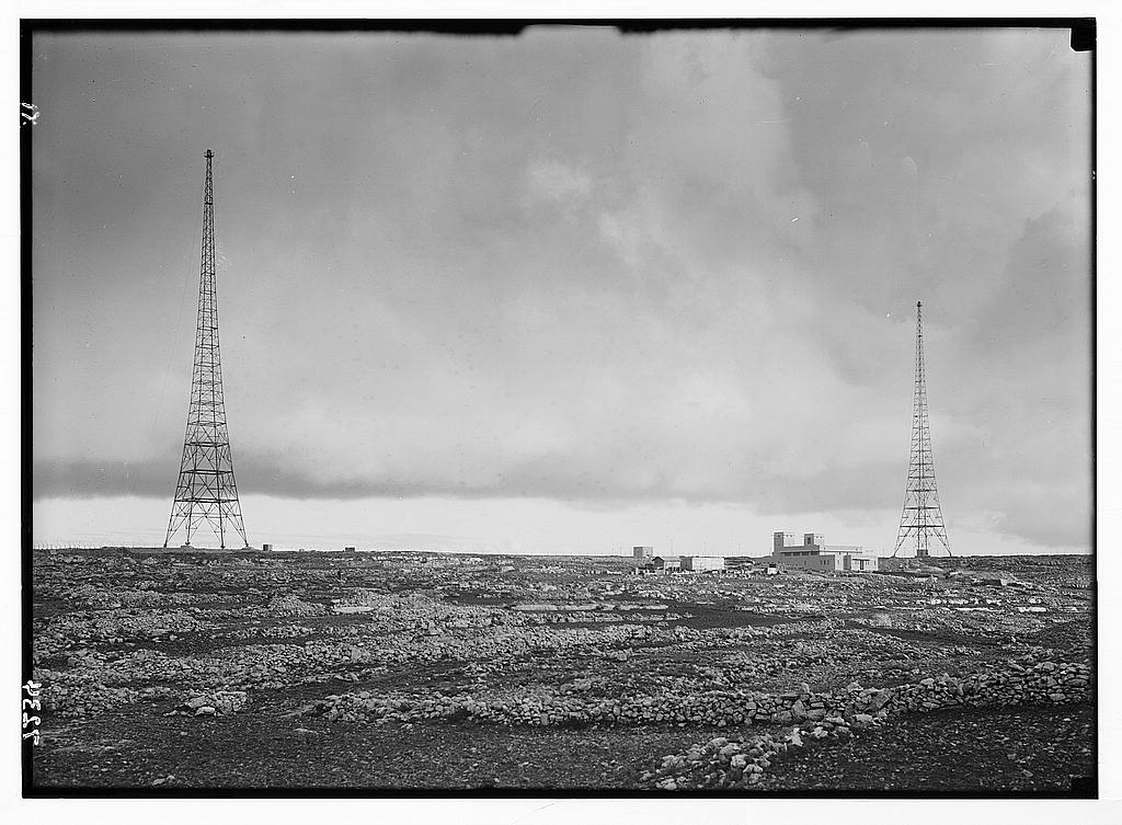 Broadcasting towers at Ramallah, general view.